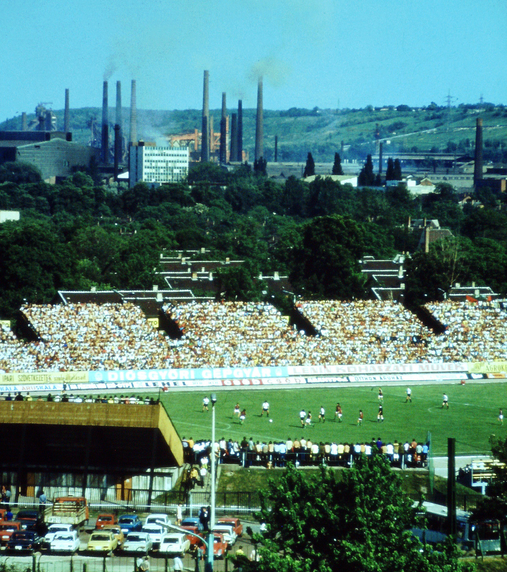 International football match in the stadium DVTK, 1979, Miskolc, Hungary